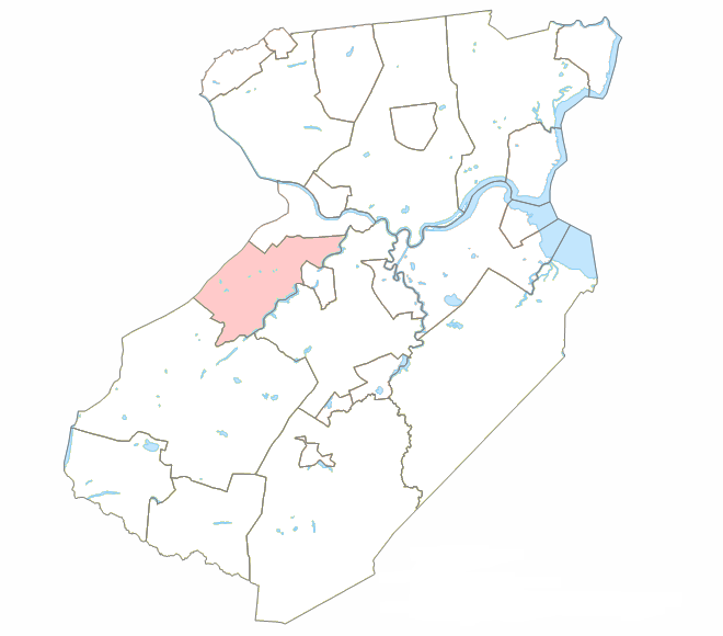 Description: Map of North Brunswick Township in Middlesex County, New Jersey Source: User:Schzmo (own work, Dec. 2006) Adapted from Image:Middlesex County, New Jersey Municipalities.png by Jim Irwin